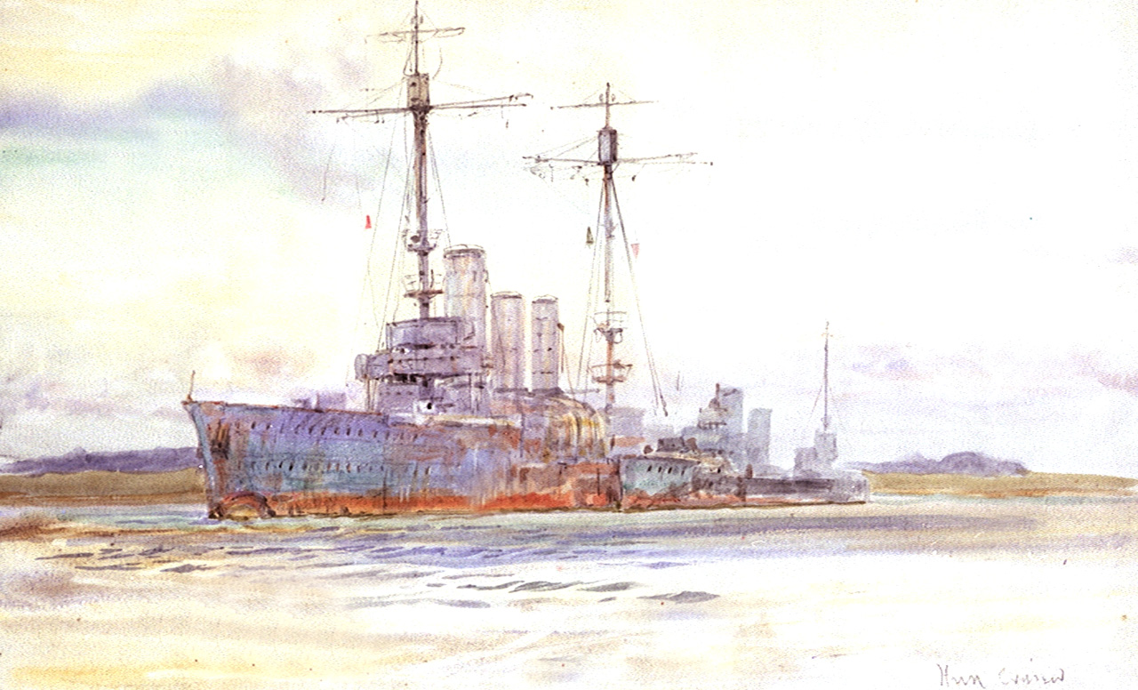 Study of a surrendered German cruiser at Scapa Flow, probably the 'Karlsruhe' Inscribed by the artist, 'Hun cruiser', lower right. Among the ships interned at Scapa Flow, there were five German cruisers that had raised funnels: 'Karlsruhe', 'Emden', 'Nürnberg', 'Cöln' and 'Dresden'. This is probably the 'Karlsruhe' which is the only one that other general visual sources (mainly photos) show with her topmasts lowered. All photos of 'Emden' and 'Nürnberg', including when beached at Scapa, show them with high topmasts. All photos of 'Cöln' and 'Dresden' up to the time of their sinking also show them with high topmasts. In this study, an unidentified German destroyer is alongside. Wyllie spent a month as a guest of Admiral Sir Charles Madden on board HMS 'Revenge' at the time of the surrender and subsequent internment of the German fleet at Scapa, and made many such studies on the spot. [BTodd/PvdM 5/13]